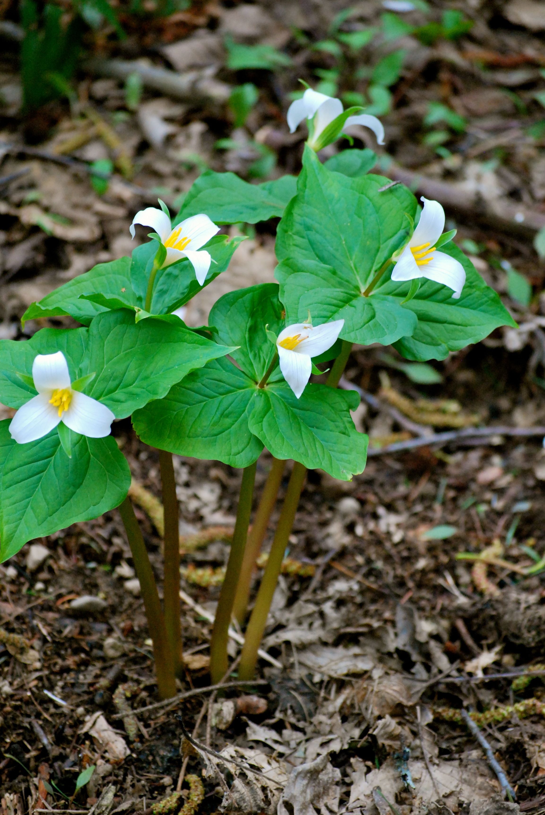 Trillium flowers blooming in March at Dash Point State Park, Federal Way, WA.